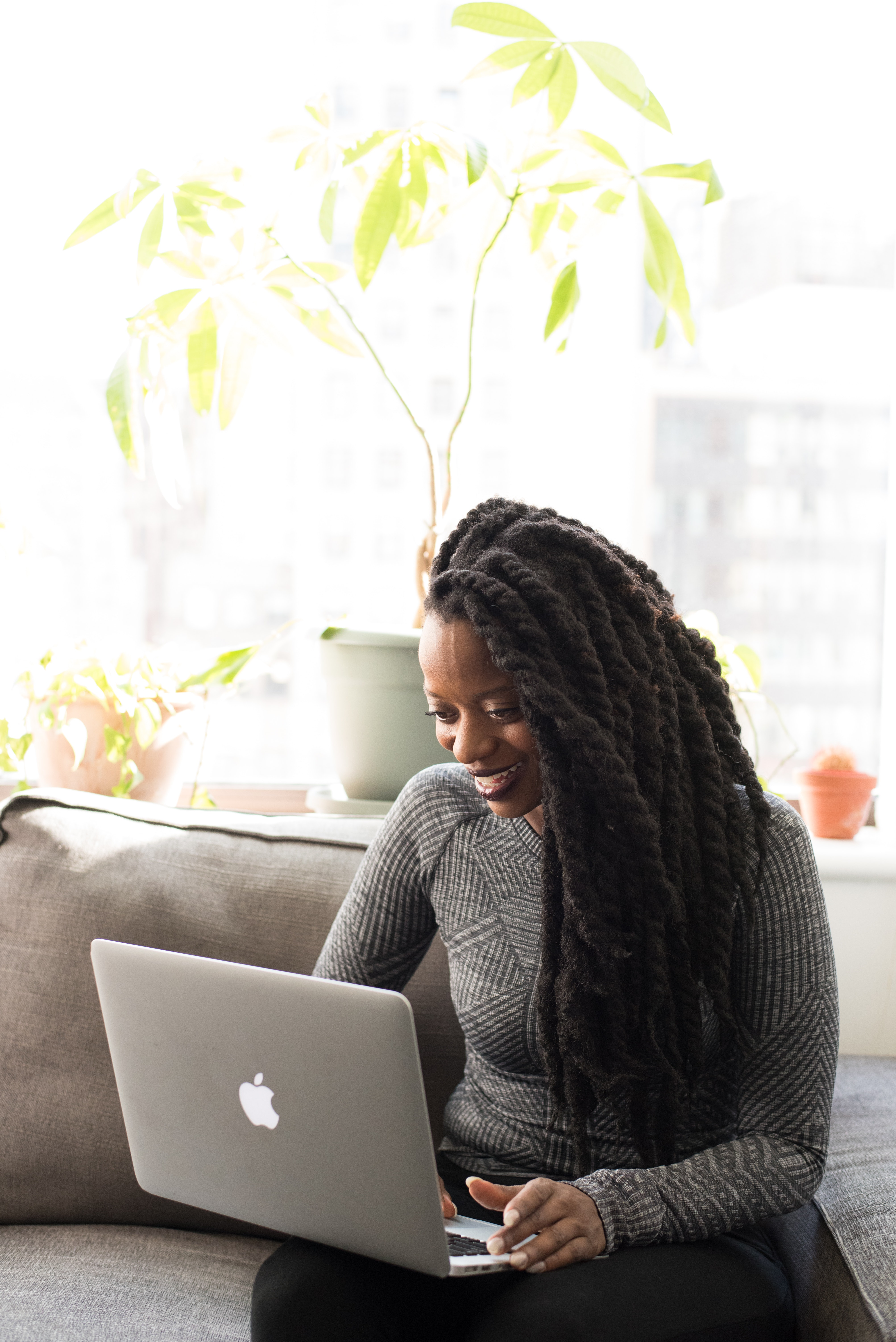 Woman Sitting on Gray Couch While Holding Her Apple Macbook Air